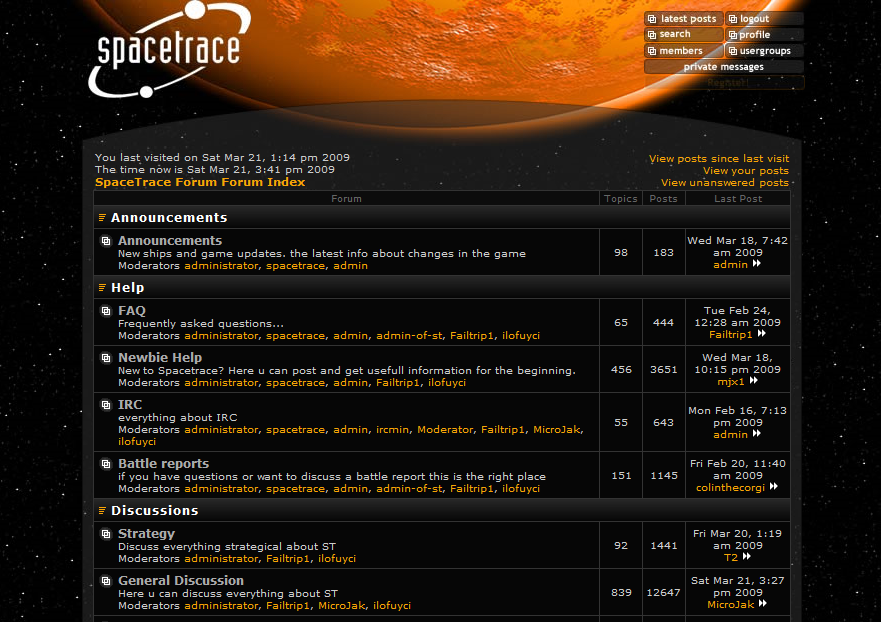 Screenshot of phpbb in use on a games forum.